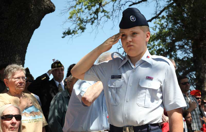 A Civil Air Patrol member salutes the flag during the 2012 Memorial Day observance at the El Dorado County Veterans Monument in Placerville, Calif. Thousands in attendance had the opportunity to hear 940th Wing Reservist Senior Master Sgt. Ian Troxellspeak about his experience conducting security operations for convoys in Iraq. . (U.S. Air Force photo by Tech. Sgt. Kenneth McCann)